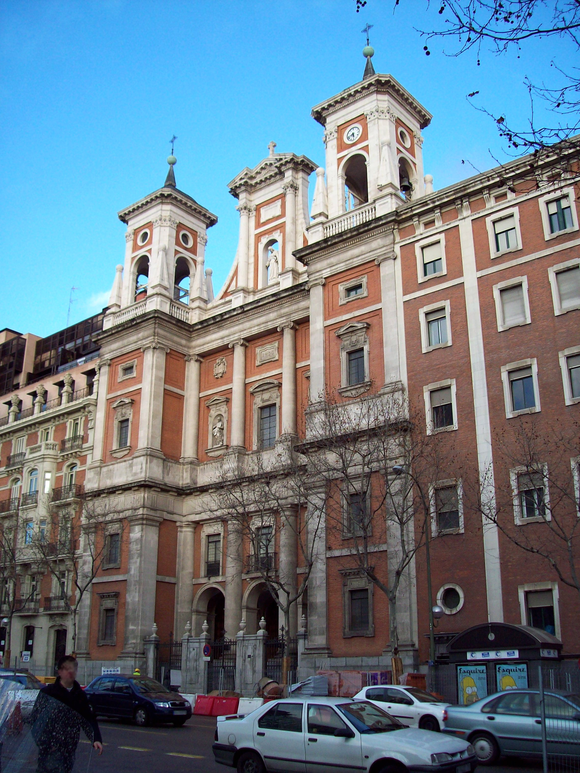 Façade of Iglesia Parroquial de San Francisco de Borja ("Parish Church of Saint Francis Borgia") at 104 Calle de Serrano (street, Salamanca district) in Madrid (Spain). Building was projected in 1946 by Francisco de Asís Fort Coghen and built from 1946 to 1950.